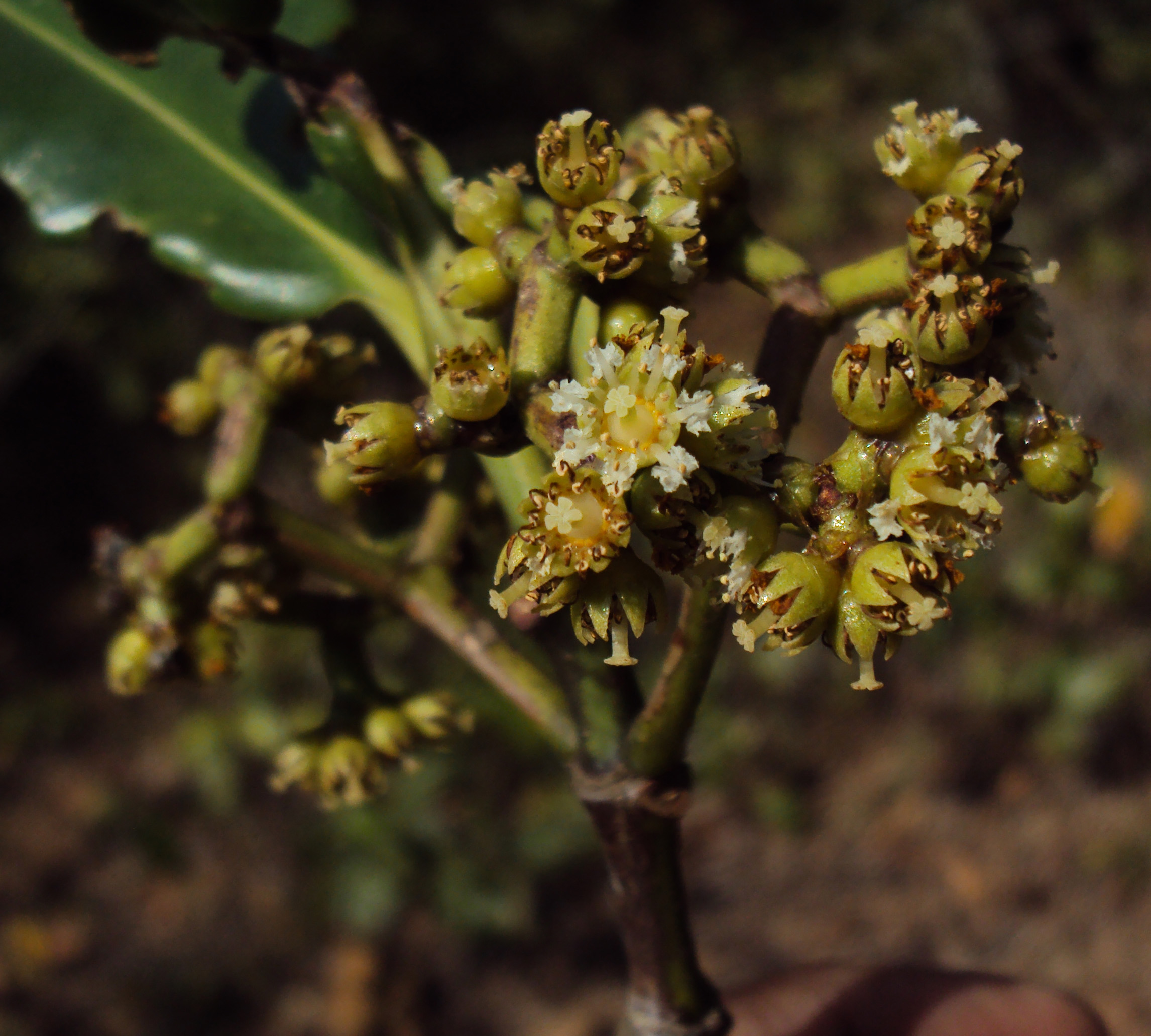 Carallia brachiata